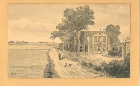 The property Flintholm in Frederiksberg, Copenhagen, Denmark. Now long gone.